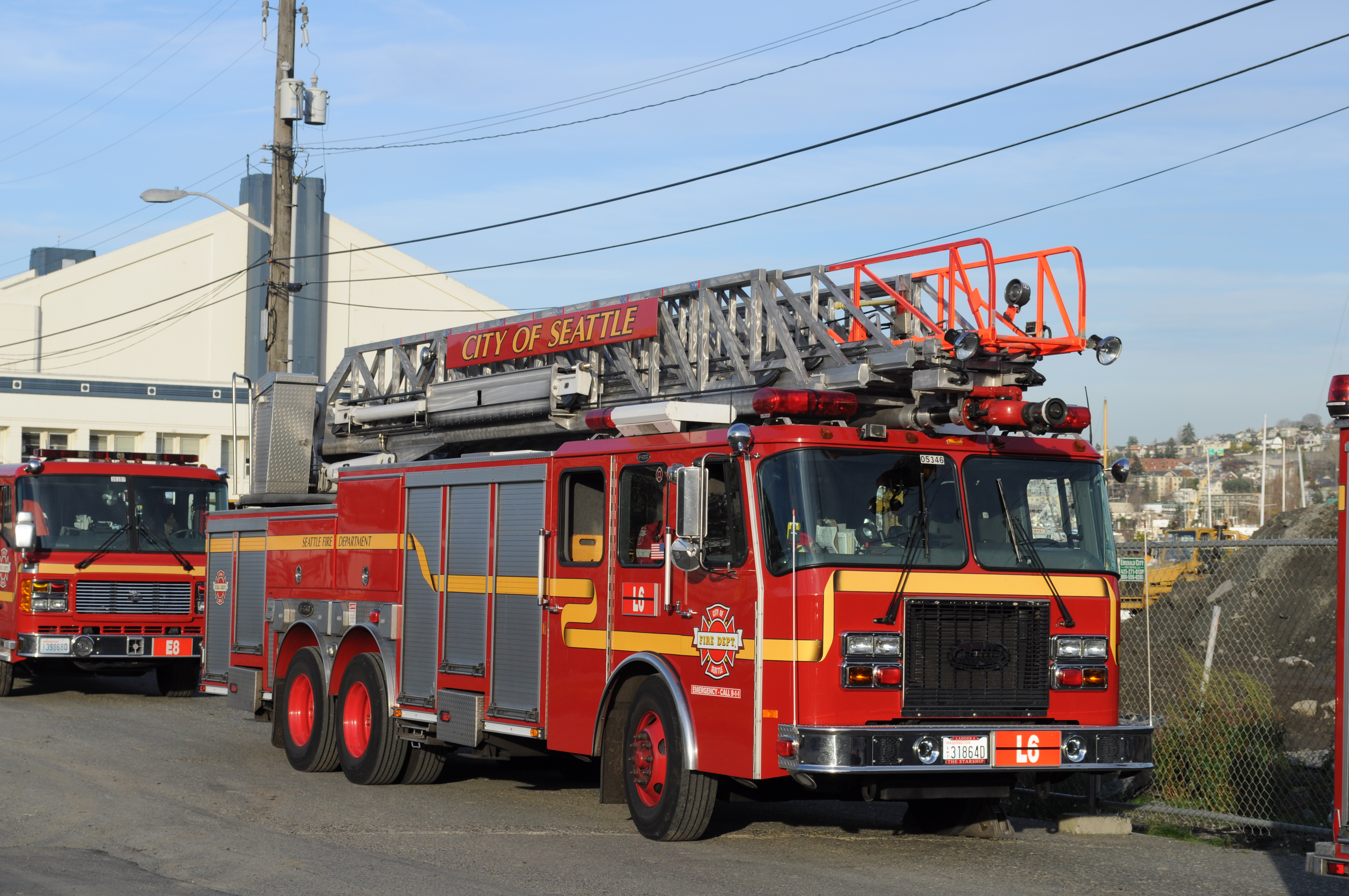 Seattle Fire Department Ladder Truck 6 (Ladder 6: 2000 Emergency One with 100' Aerial Ladder; I believe that's made by Spartan) parked outside the former Naval Reserve Building, South Lake Union, Seattle, Washington during a memorial for Fire Department Battalion Chief David H. Jacobs, Jr.